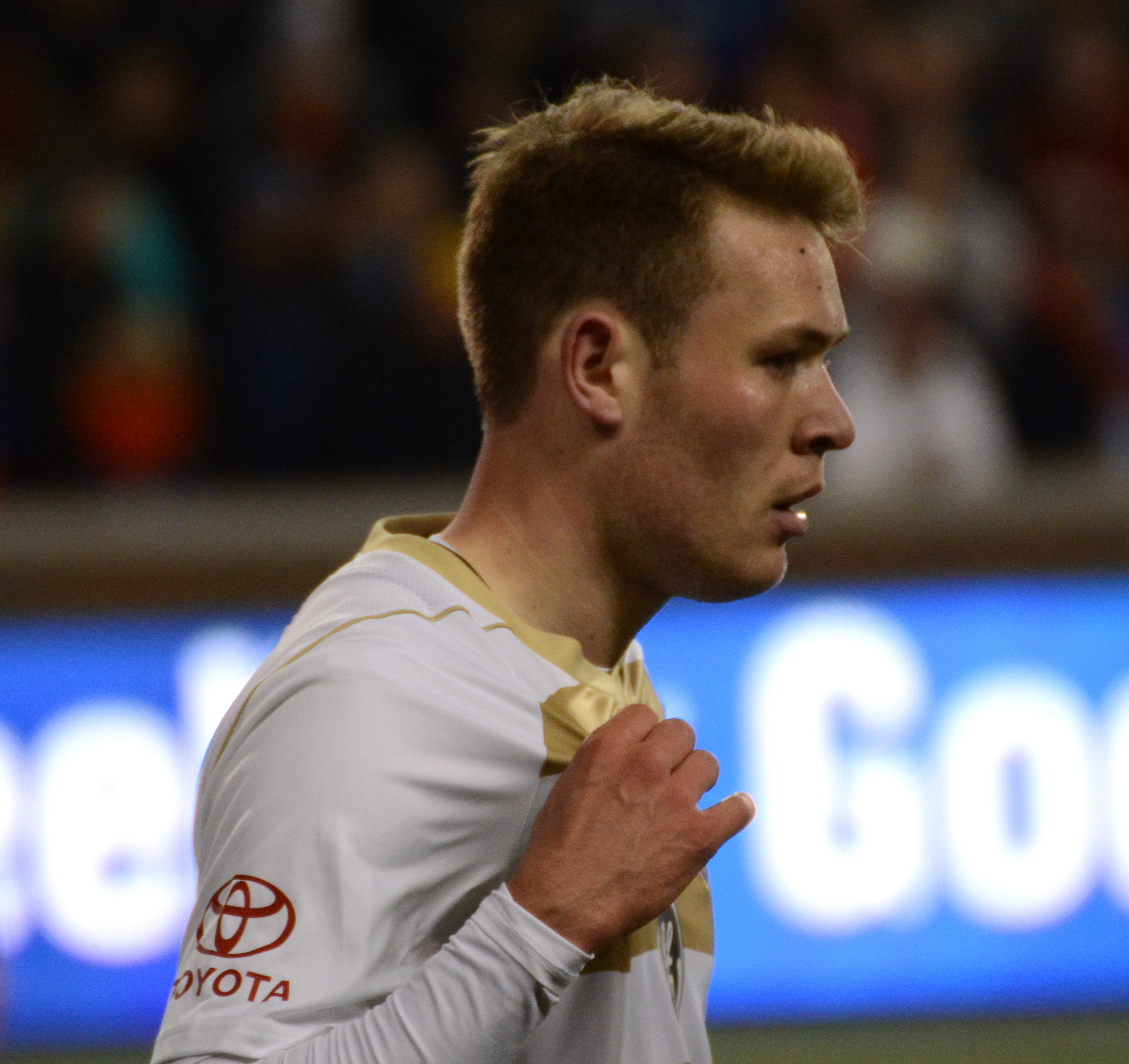 Taken during FC Cincinnati's home opener against Louisville City FC at Nippert Stadium in Cincinnati, USA on April 7, 2018.